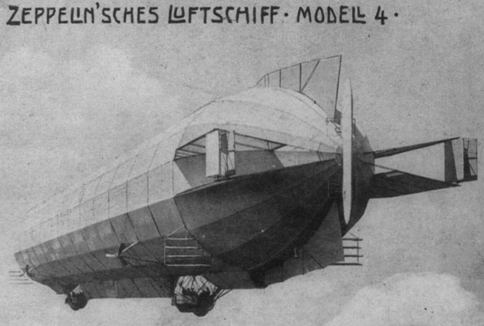 Title: Zeppelin airship, model 4, with inset bust portrait of Graf Zeppelin Abstract/medium: 1 photographic print.